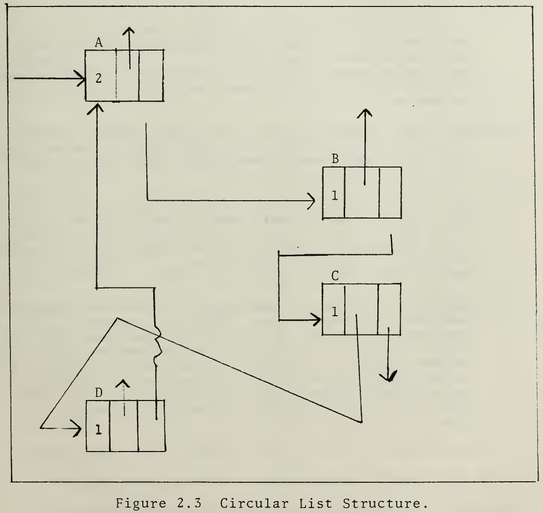 Illustration from the Master's Thesis Pdf file.